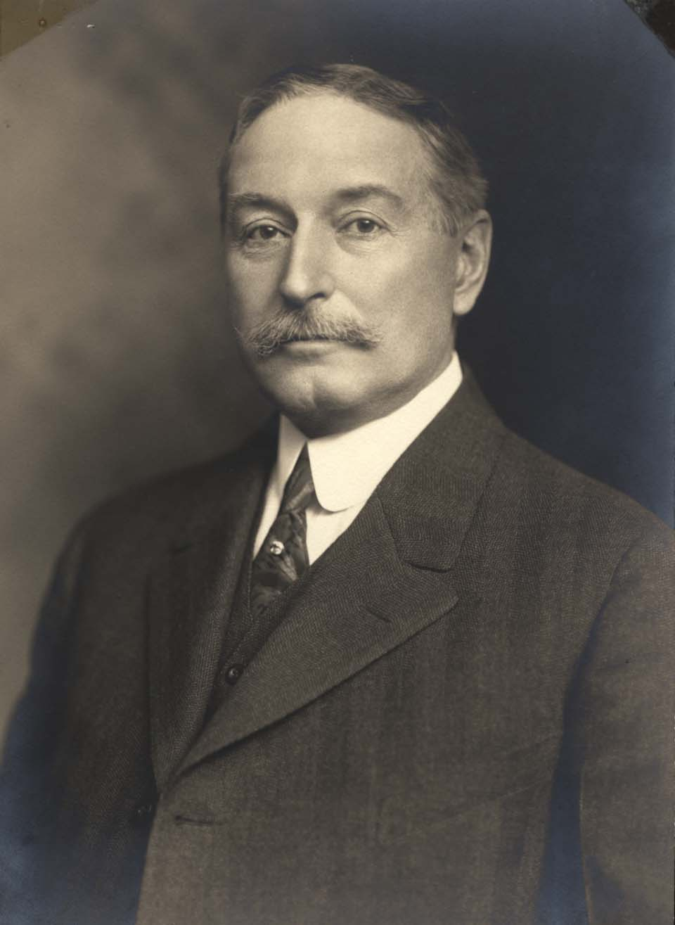 Portrait of John Brown Francis Herreshoff